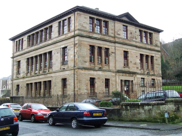 School Court The former Jean Street Primary School, converted to flats.